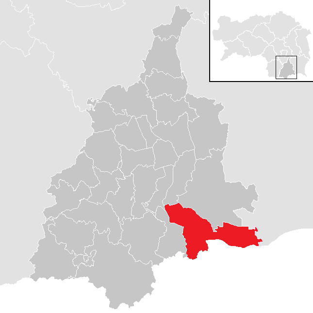 Straß in Steiermark within the district Leibnitz